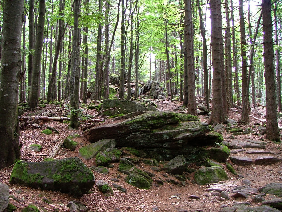 Naturpark Bayerischer Wald, picture taken between Waldhäuser and Lusen. The picture shows typical granitic soil and mixed forest with spruces and beech trees.